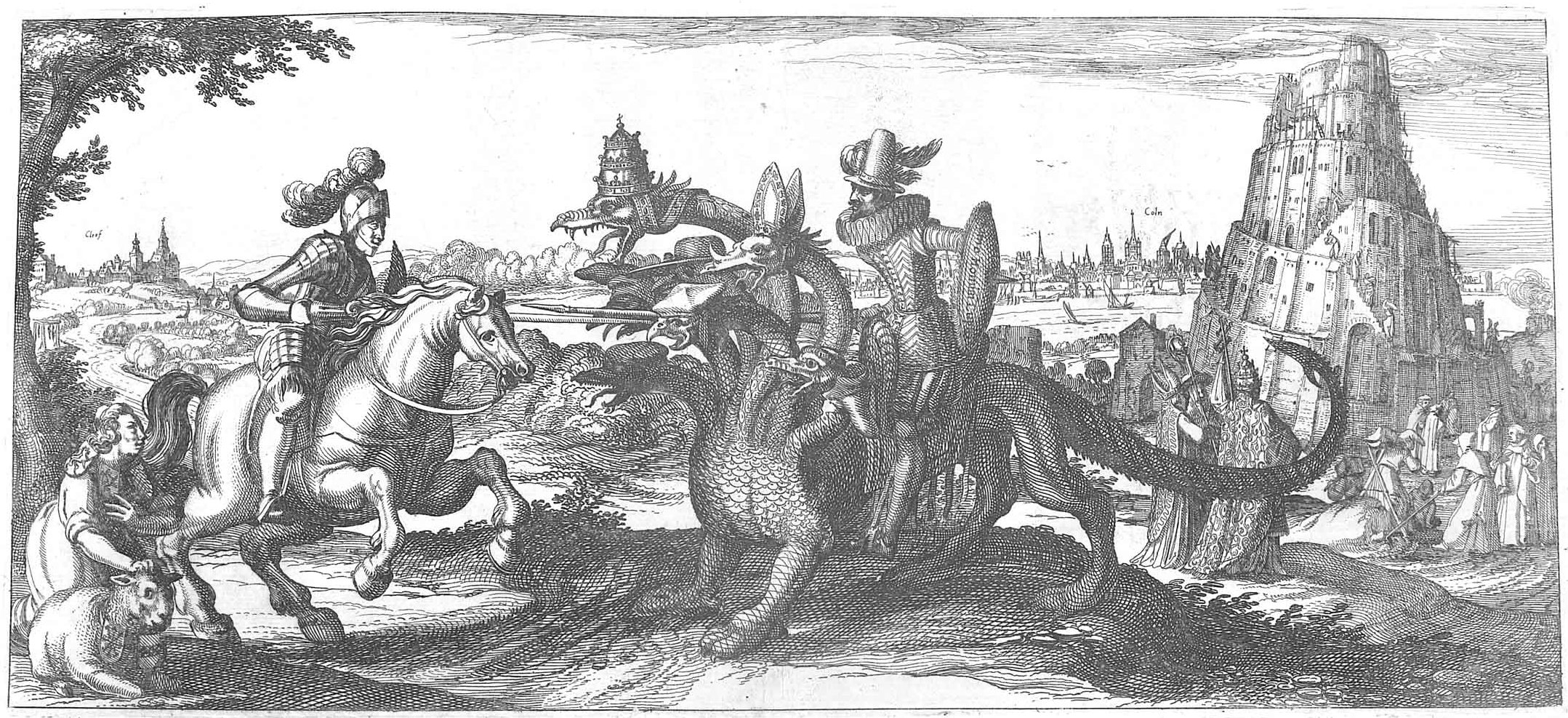 Derivation and Explanation of Cleves's Knight St. George